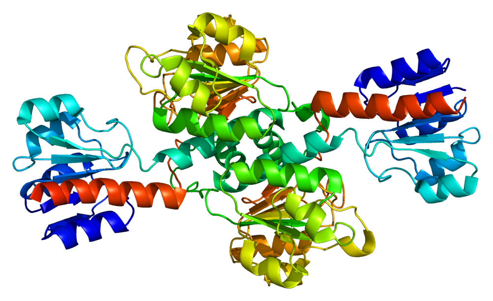 Structure of the PHGDH protein. Based on PyMOL rendering of PDB 2g76.